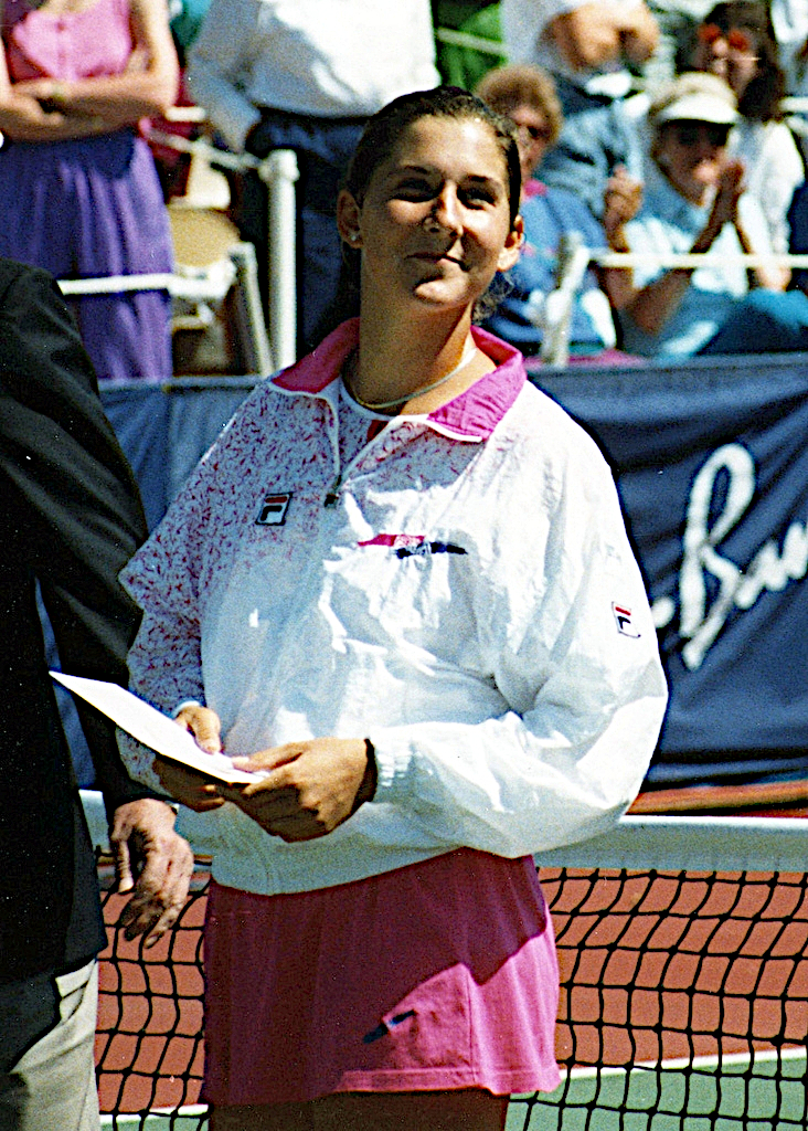 Runner-up Monica Seles at the 1991 U.S. Women's Hard Court Championships in San Antonio